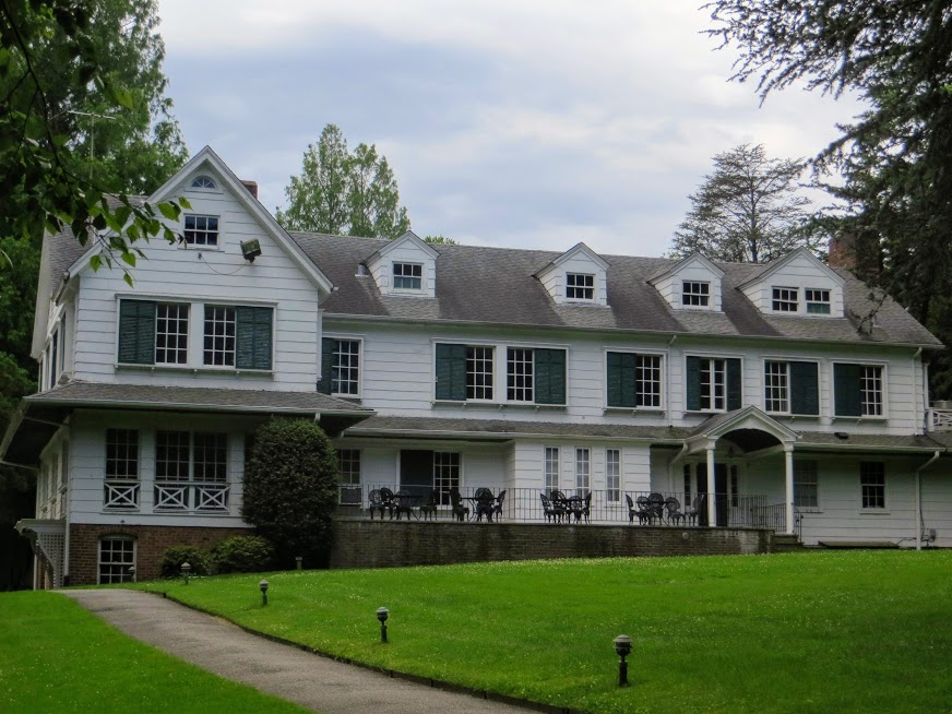 200 year old farmhouse located on the property of the Bailey Arboretum in Lattingtown, New York. It was the summer home of Frank Bailey and his family after he purchased the house and property in the early 1900s.